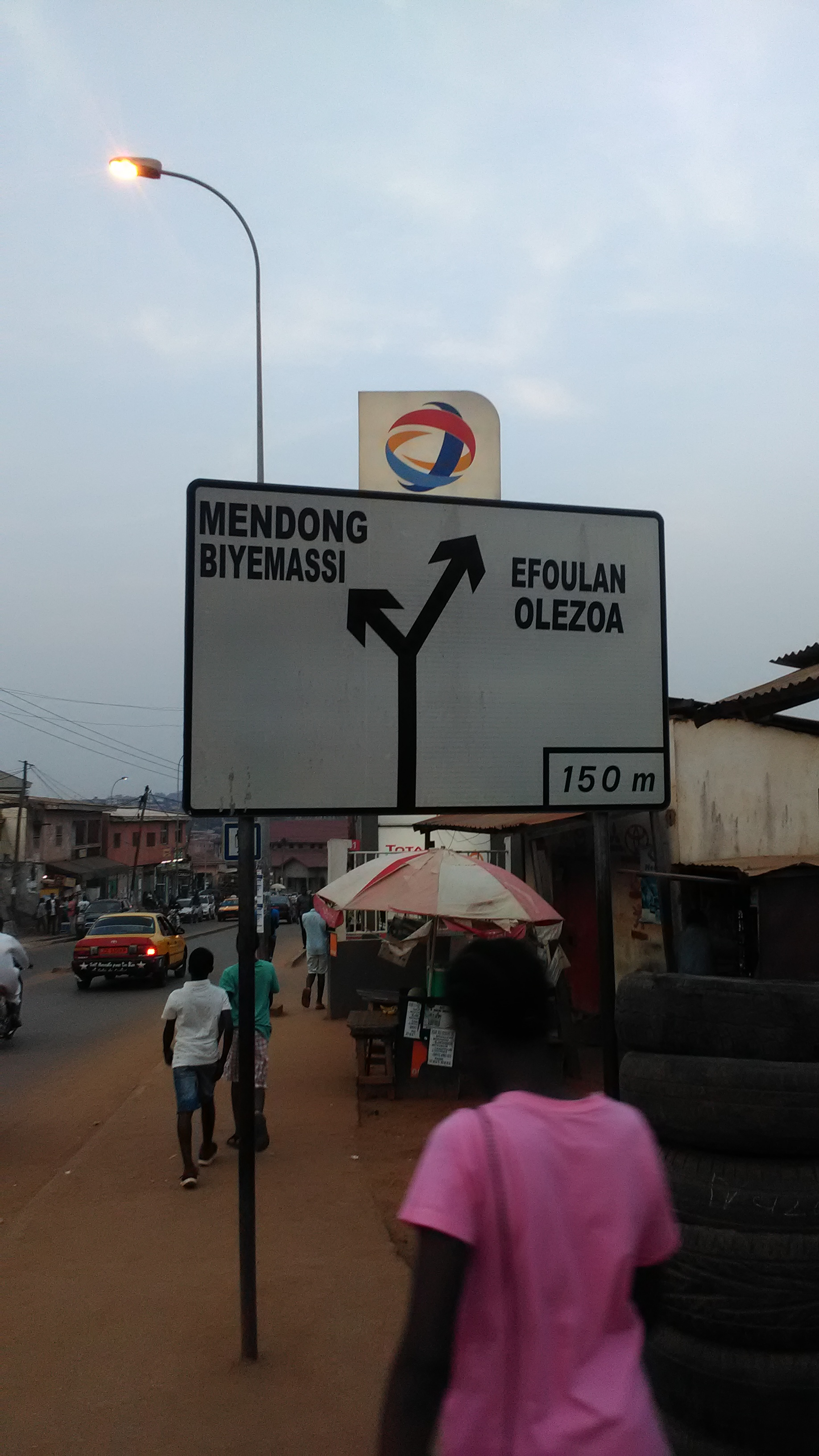 Chapelle Nsimeyon crossroads Yaounde This is an image with the theme "Africa on the Move or Transport" from: Cameroon